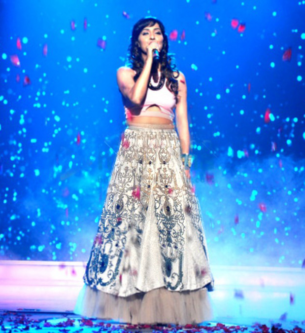 Neeti Mohan at the Audio release of 'Happy New Year'